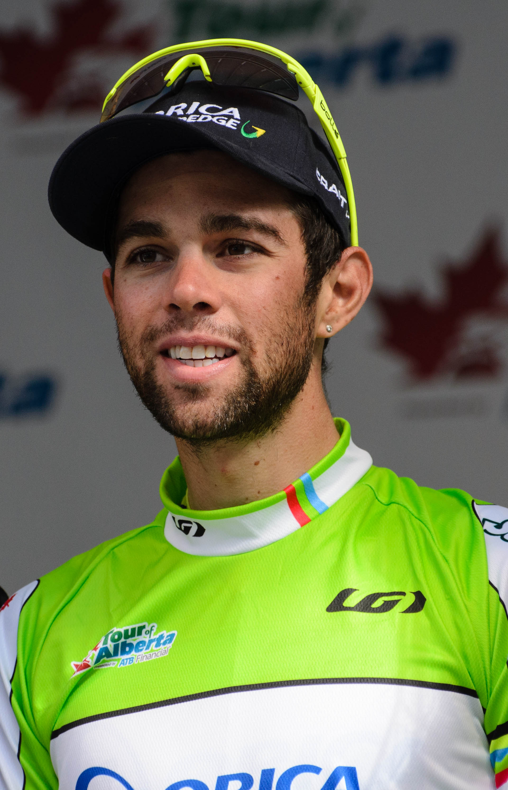 Michael Matthews at the 2015 Tour of Alberta. Please attribute Connor Mah if used elsewhere